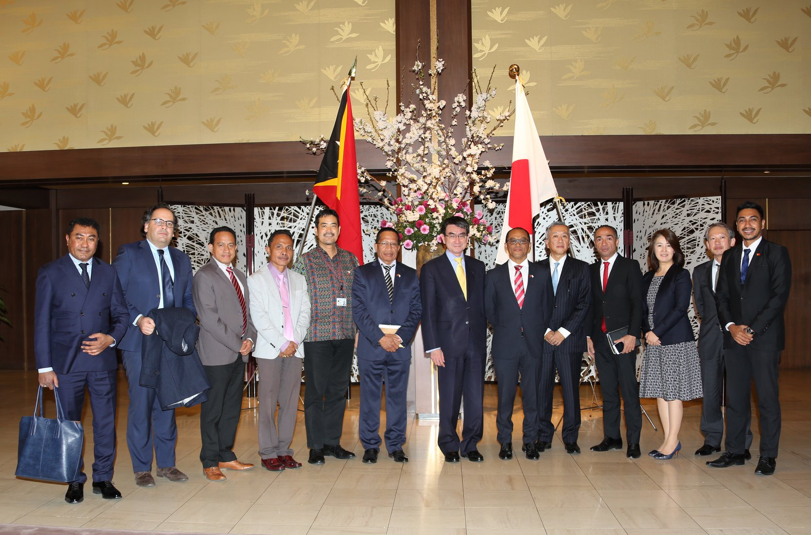 Tokyo, March 27, 2019 - Tokyo, March 27, 2019 – Minister for Foreign Affairs and Cooperation (MoFAC), H.E. Mr. Dionísio Babo Soares, accompanied by Director General for Bilateral Affairs-MoFAC, Mr. Isílio Coelho, Timorese Ambassador in Japan, Mr. Filomeno Aleixo da Cruz, in a bilateral meeting with his counterpart, Foreign Minister of Japan, H.E. Mr. Taro Kono. The objective of this official meeting is to strengthen bilateral relations between the two countries. During the meeting, both Ministers discuss the trilateral cooperation framework between Timor-Leste, Japan and Indonesia in the development of oceanic product especially in the area fishery. The two members of government also discuss the strategic issues which Timor-Leste’s government intends to achieve and continue with Japanese government especially on the infra structure and human capital development including the rehabilitation project at the President Nicolau Lobato International airport, Díli. Minister Kono expresses the support of the government of Japan adhesion of Timor-Leste to ASEAN group. Venue: official residence of Minister Taro Kono, Tokyo-Japan.